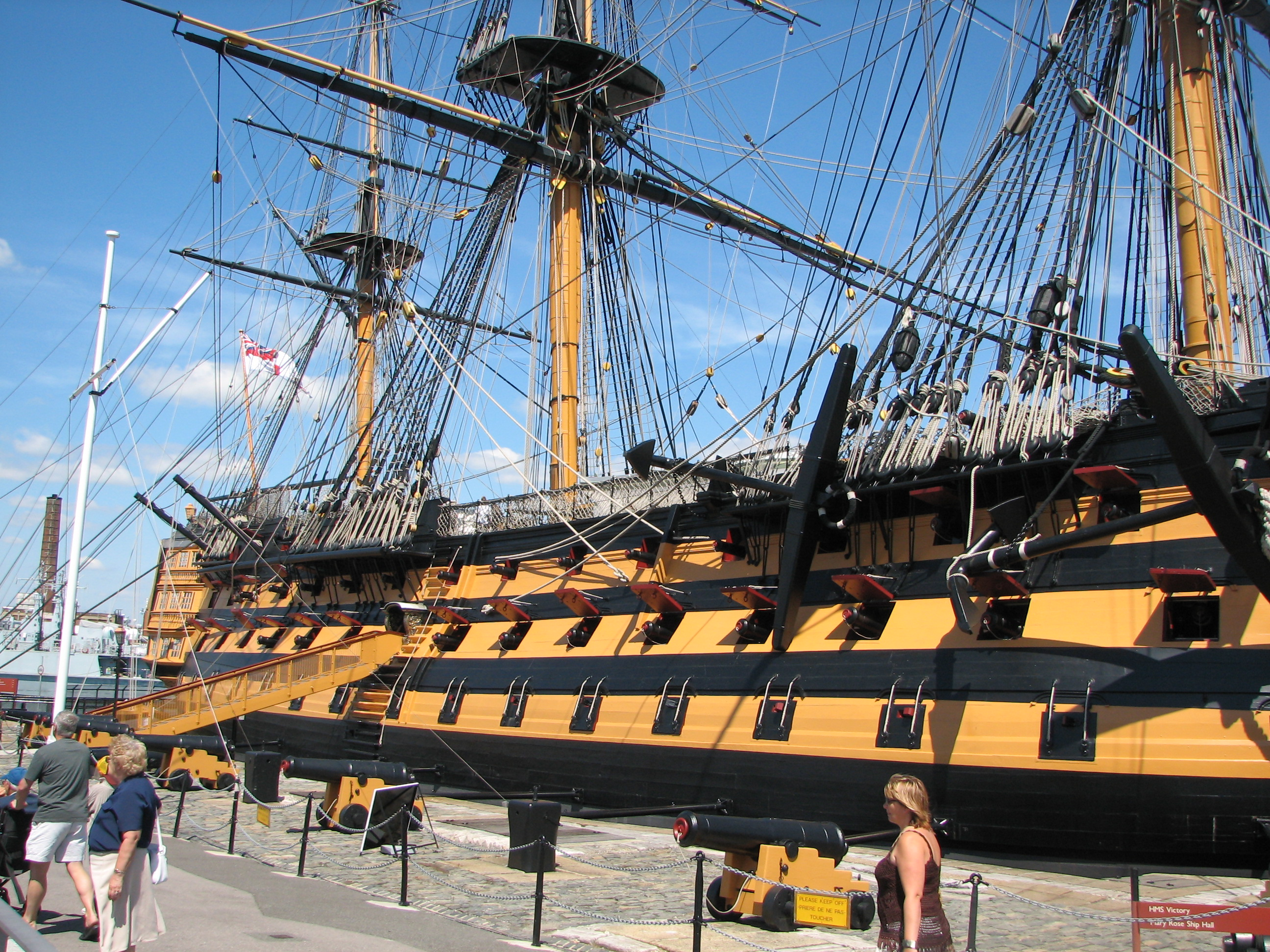 HMS Victory's starboard flank